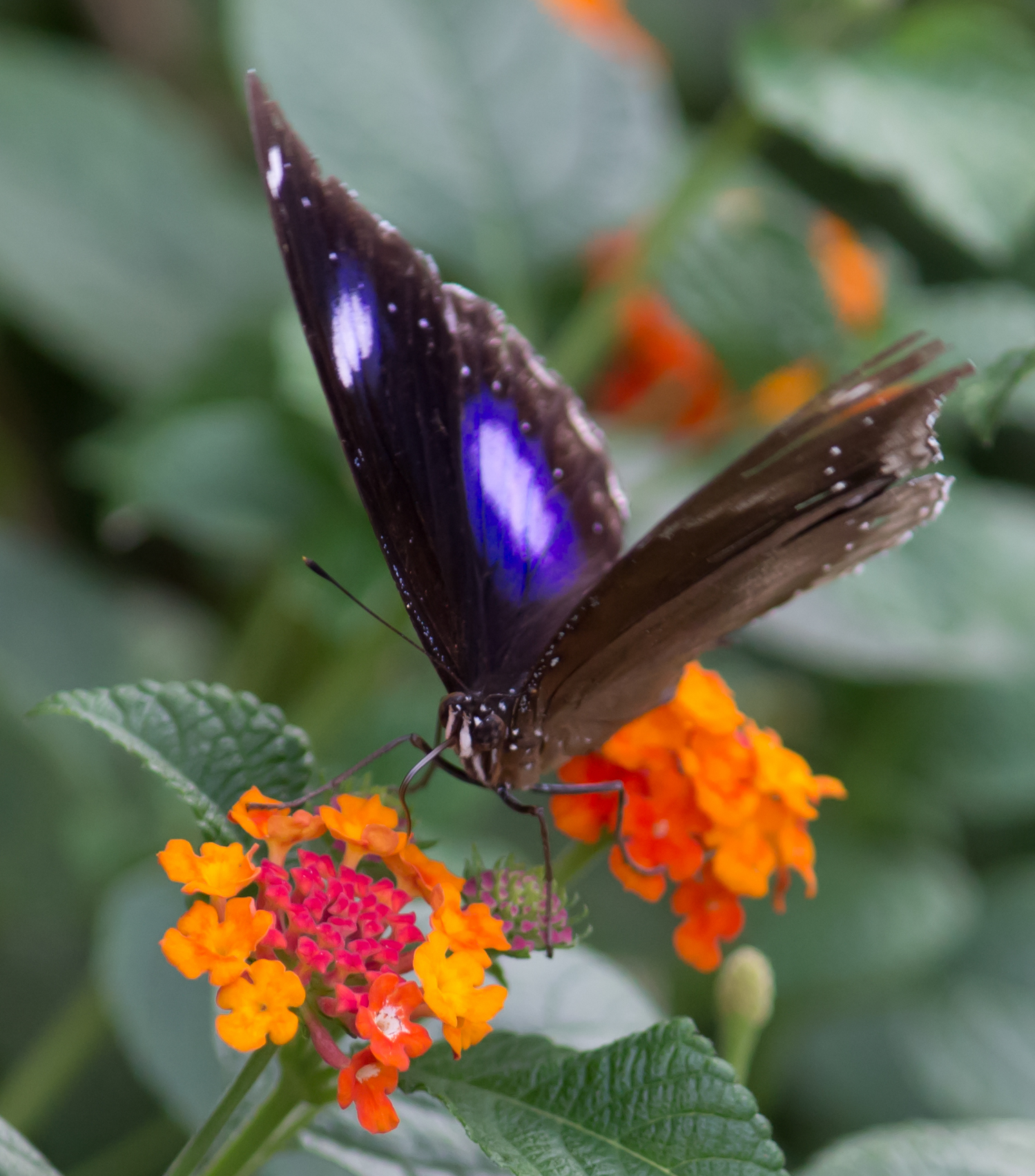 The photo was taken at Pondichery, India. The butterfly had a wingspan of more than 10 cm.